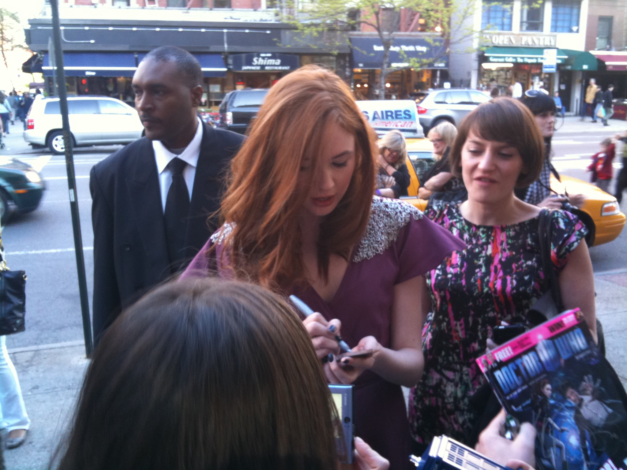 Karen Gillan signing autographs for the US premier of the Eleventh Doctor at the Village East Cinema